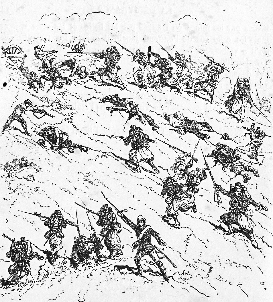 Drawing of attack by Comoy's Turco battalion at the battle of Hoa Moc, 2 March 1885